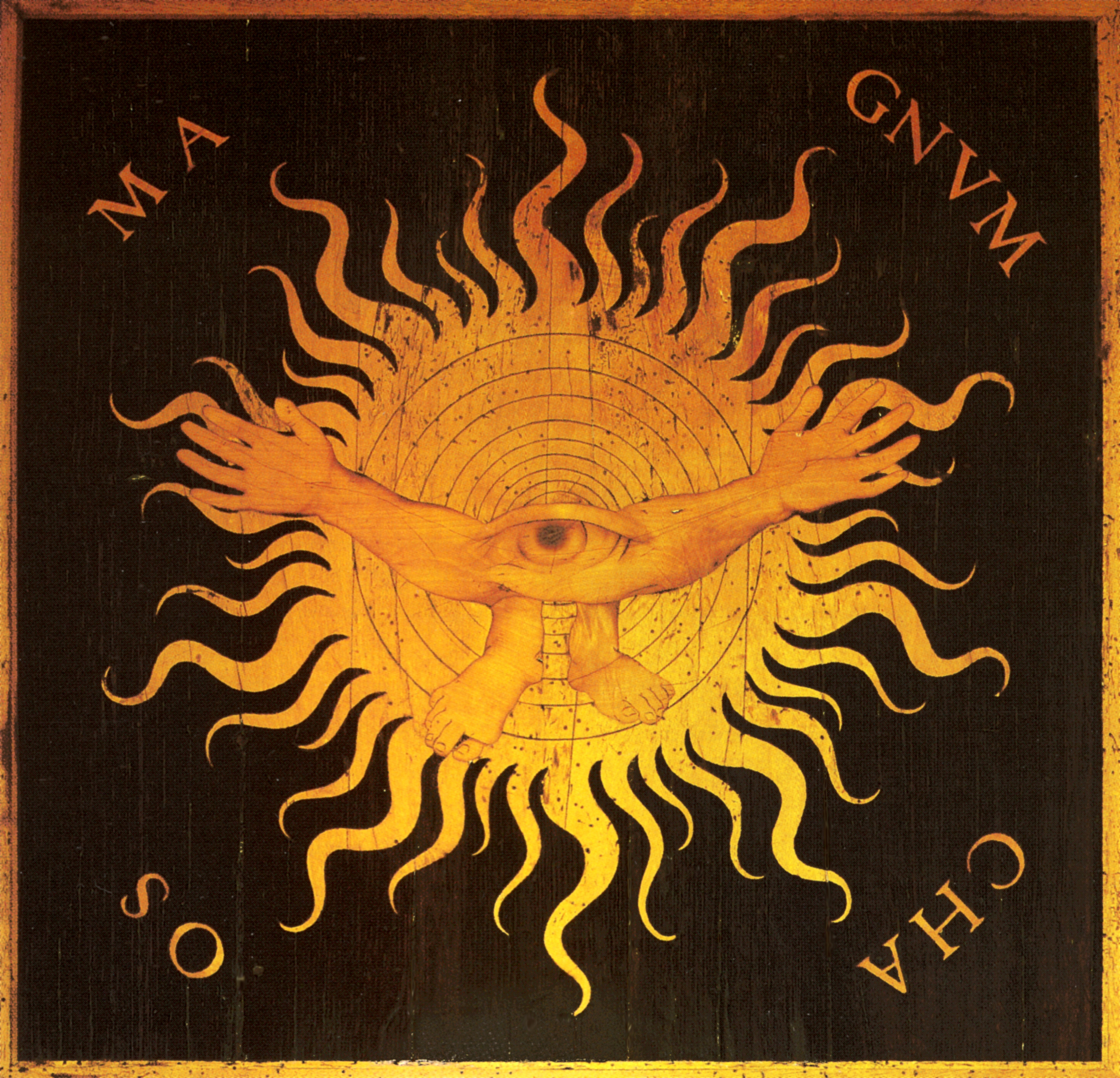 Wood-inlay image representing chaos magnum, the "great gulf" (Luke 16:26). Intarsia in the choir of the Santa_Maria_Maggiore,_Bergamo in Bergamo. Giovan Francesco Capoferri's work on a design by Lorenzo Lotto.